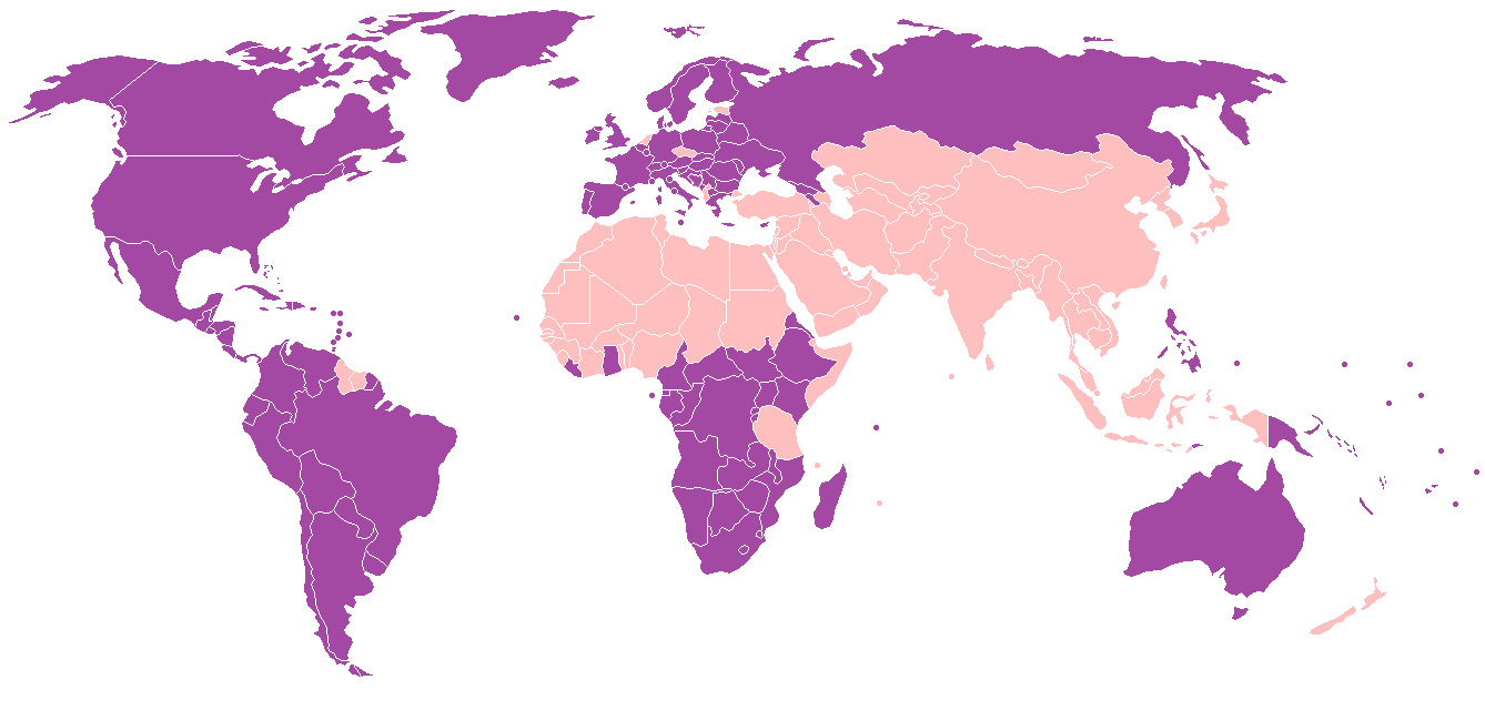 Countries with absolute Christian majority (50%+) Pew Research Forum in December 2012 gives an updated religious breakdown for each state in 2010 (and now includes South Sudan) and a map Here